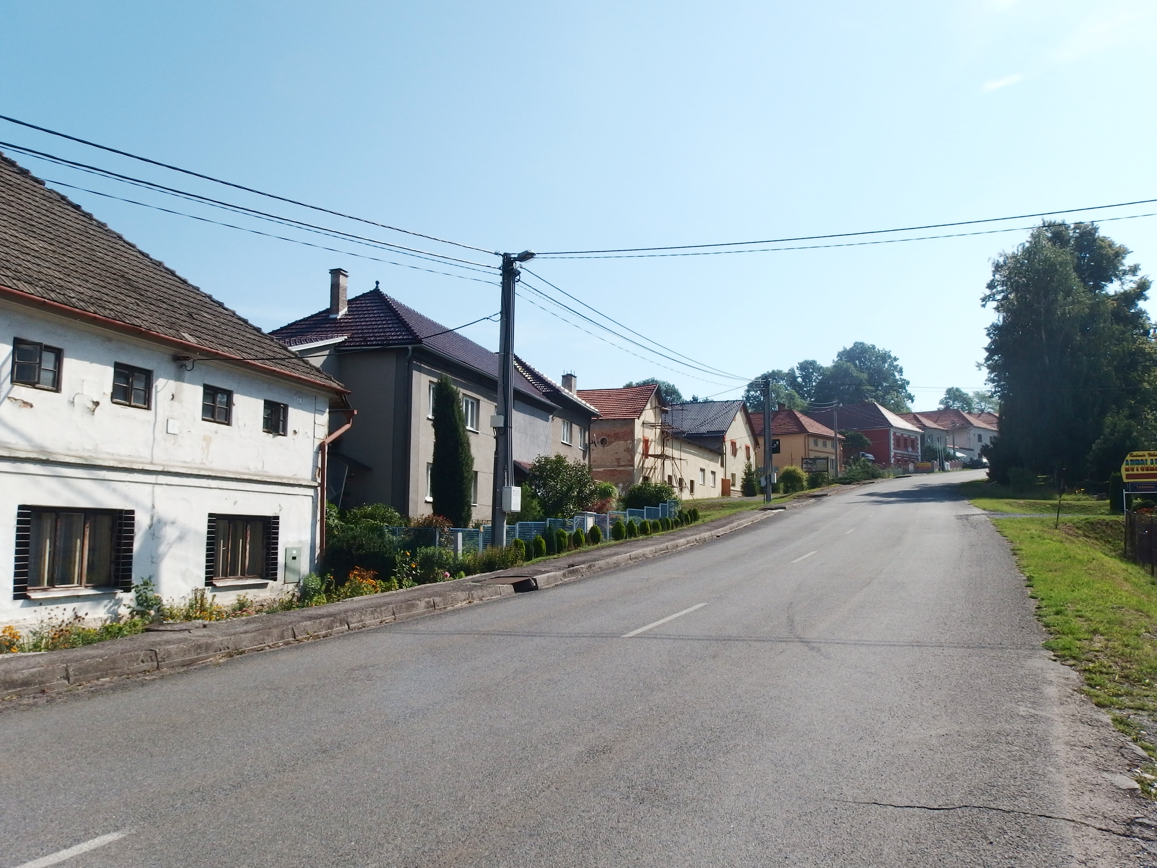 Starý Jičín, Nový Jičín District, Czech Republic, part Dub.